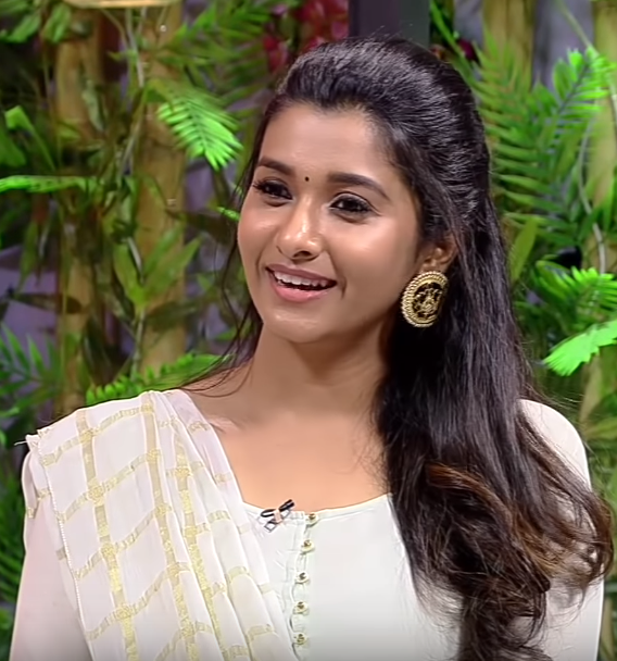 Priya Bhavani Shankar in an interview for Puthuyugam TV